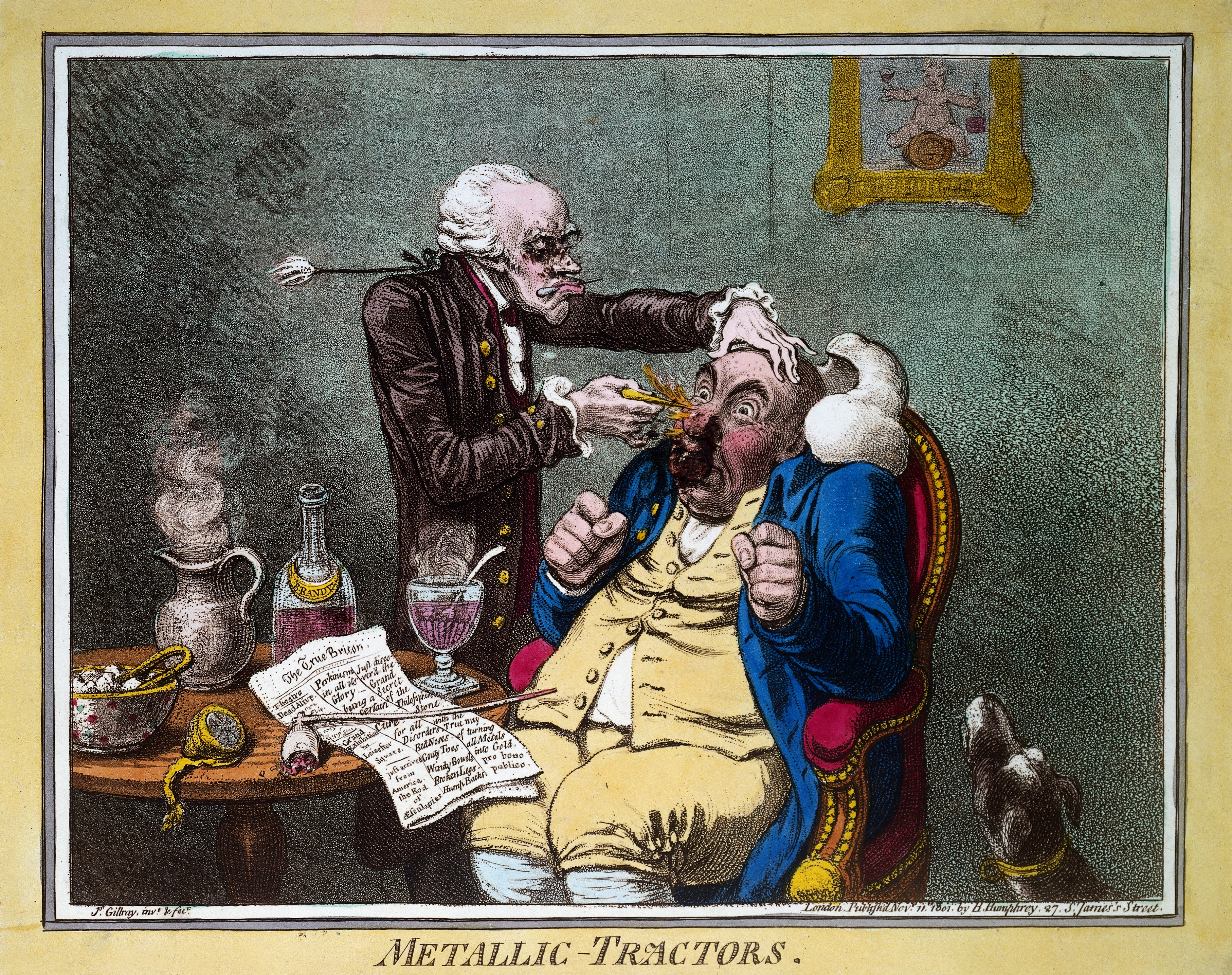 Showing Elisha Perkins Wellcome Images Keywords: Gillray, James